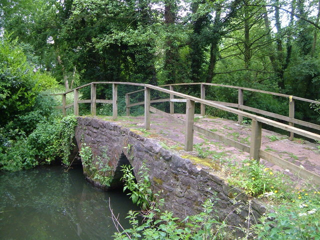 Crickback Bridge, Chew Magna. A grade 2 listed bridge over the River Chew on the outskirts of the village.